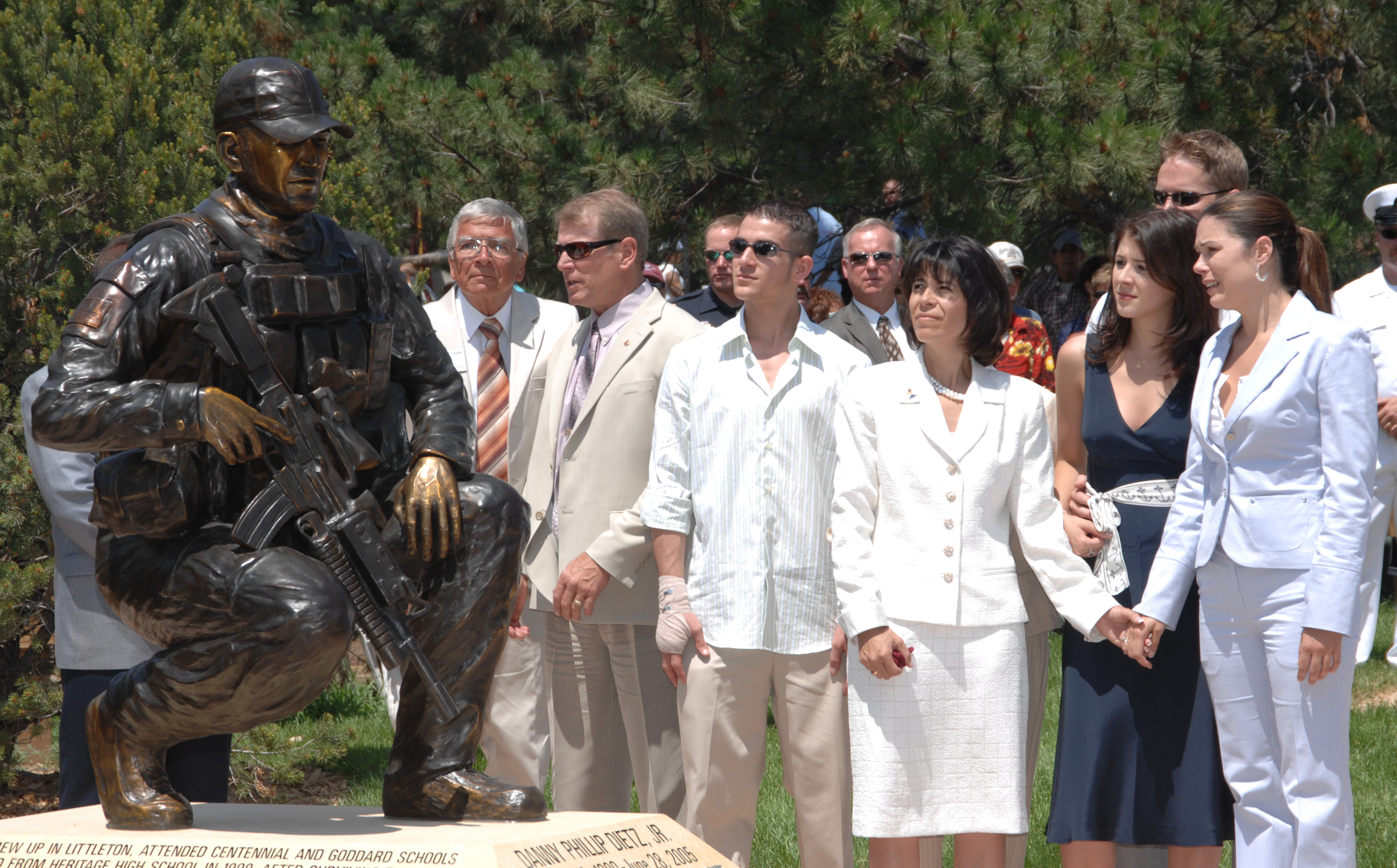 LITTLETON, Colo. (July 4, 2007) – Family, friends and Littleton city officials view the larger-than-life bronze statue of Gunner’s Mate 2nd Class (SEAL) Danny P. Dietz, who was honored by his hometown of Littleton, by dedicating the statue and park near his childhood family home. An estimated 3,000 people crowded the new park to honor the Sailor’s memory. Gunners Mate 2nd Class (SEAL) Danny Dietz was killed in action while conducting counter-terrorism operations in Kunar Province, Afghanistan on June 28, 2005. Coalition forces located the Sailor and notified the family six days later on July 4. The Memorial dedication marks the second anniversary of this event. U.S. Navy photo by Boatswains Mate 1st Class Chet Mowrey (RELEASED)